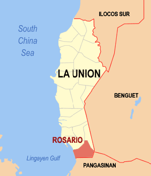 Map of La Union showing the location of Rosario